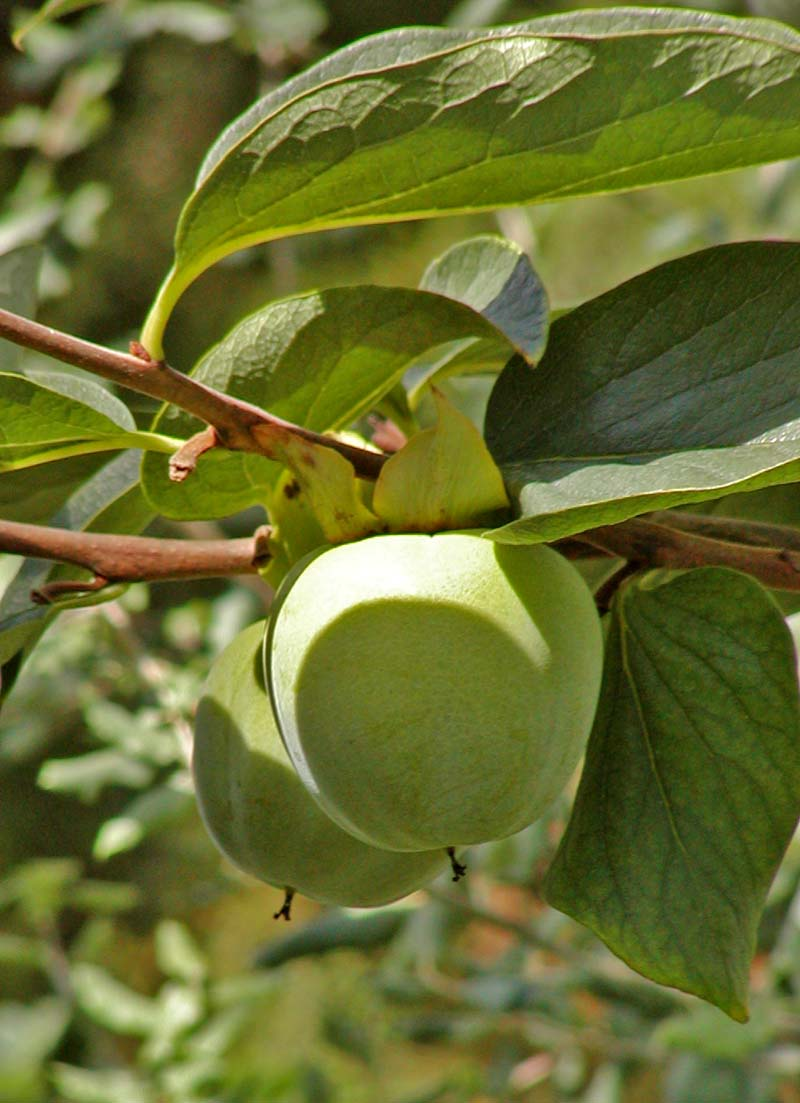 Photo of Diospyros kaki at Aarhus Botanical Garden